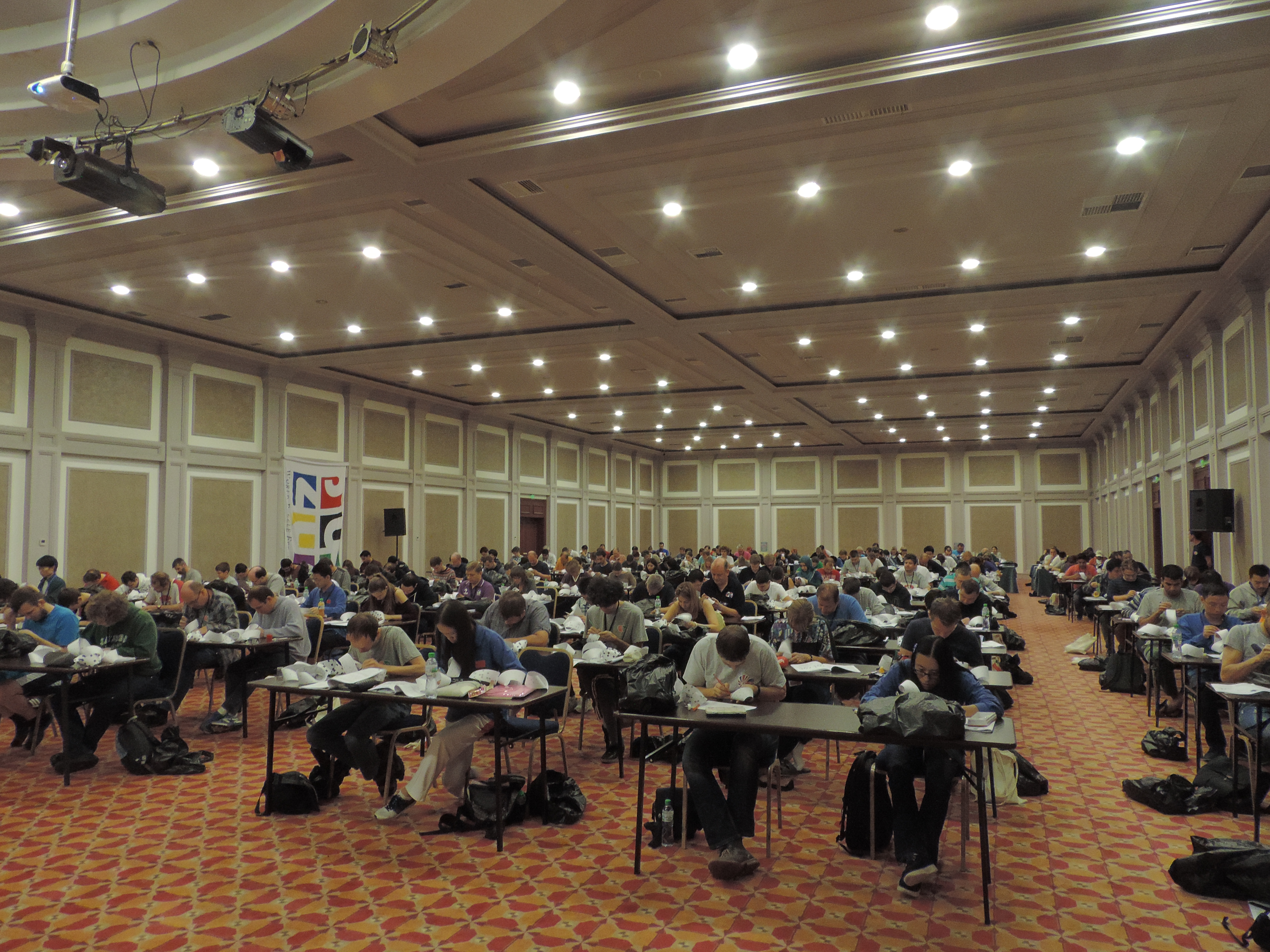 2015-World Puzzle Championship, Sofia, Bulgaria